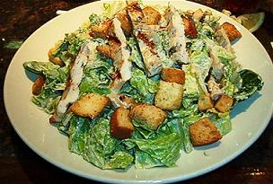 Caesar salad at Nichols Restaurant in Marina del Rey, California. Comment: "A far cry from the original;" -- ONE of many variations. See e.g. Doral Chenoweth on this. As an eye-catcher in Caesar salad, it should be replaced by something like this, as soon as available. -- any IP 12:43, 30 July 2007 (UTC)